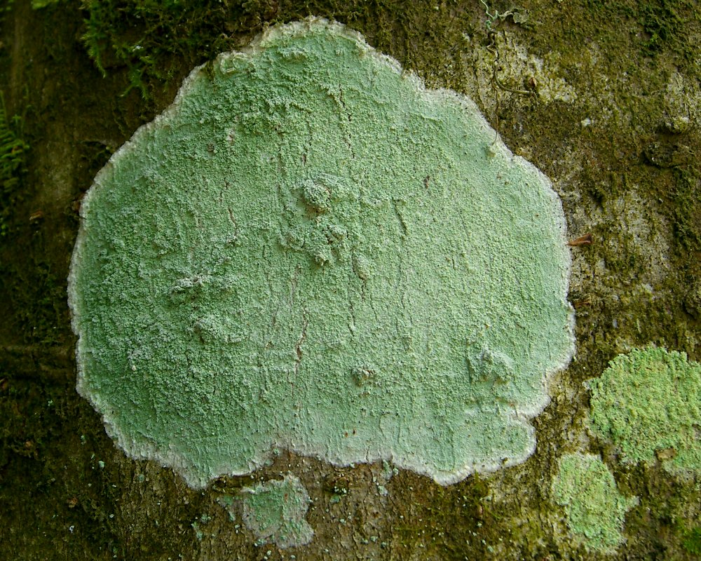 Scientific Name: Lecanora thysanophora R. C. Harris Common Name: Mapledust Lichen Certainty: positive (notes) Location: Southern Appalachians; Smokies; CabinCove Date: 20060627 Fibrous prothallus is visible if you know what to look for.